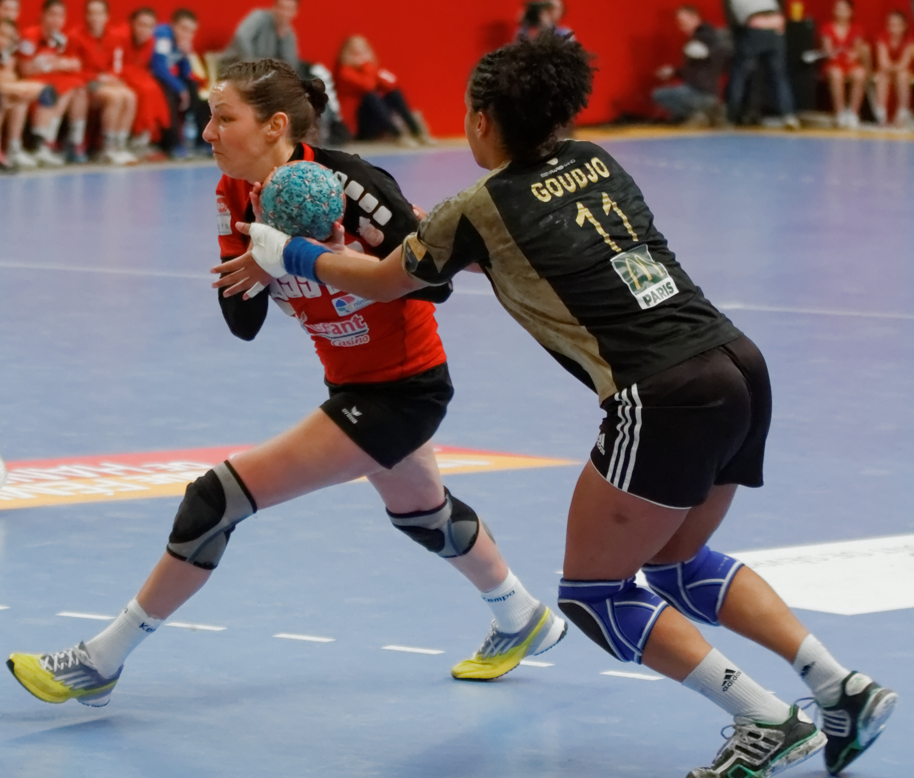 Final of the Women's handball French cup 2013. Handball Cercle Nîmes vs Issy Paris Hand, stadium Pierre-de-Coubertin at Paris.